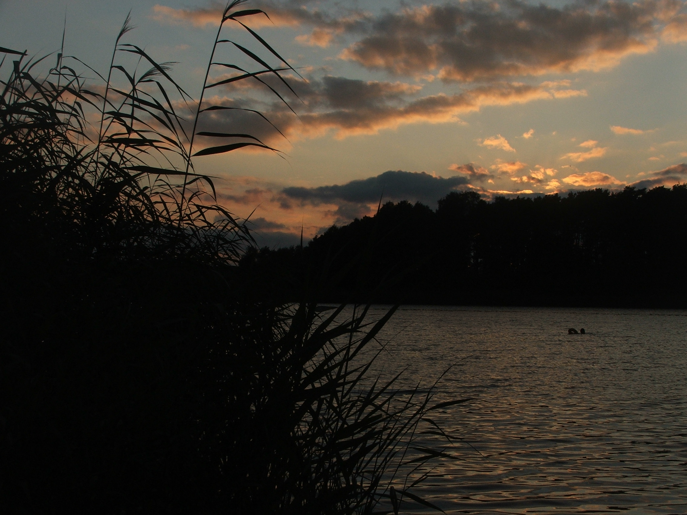 Wikaryjskie Lake